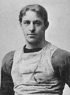 Gelbert playing in the late 1890s.